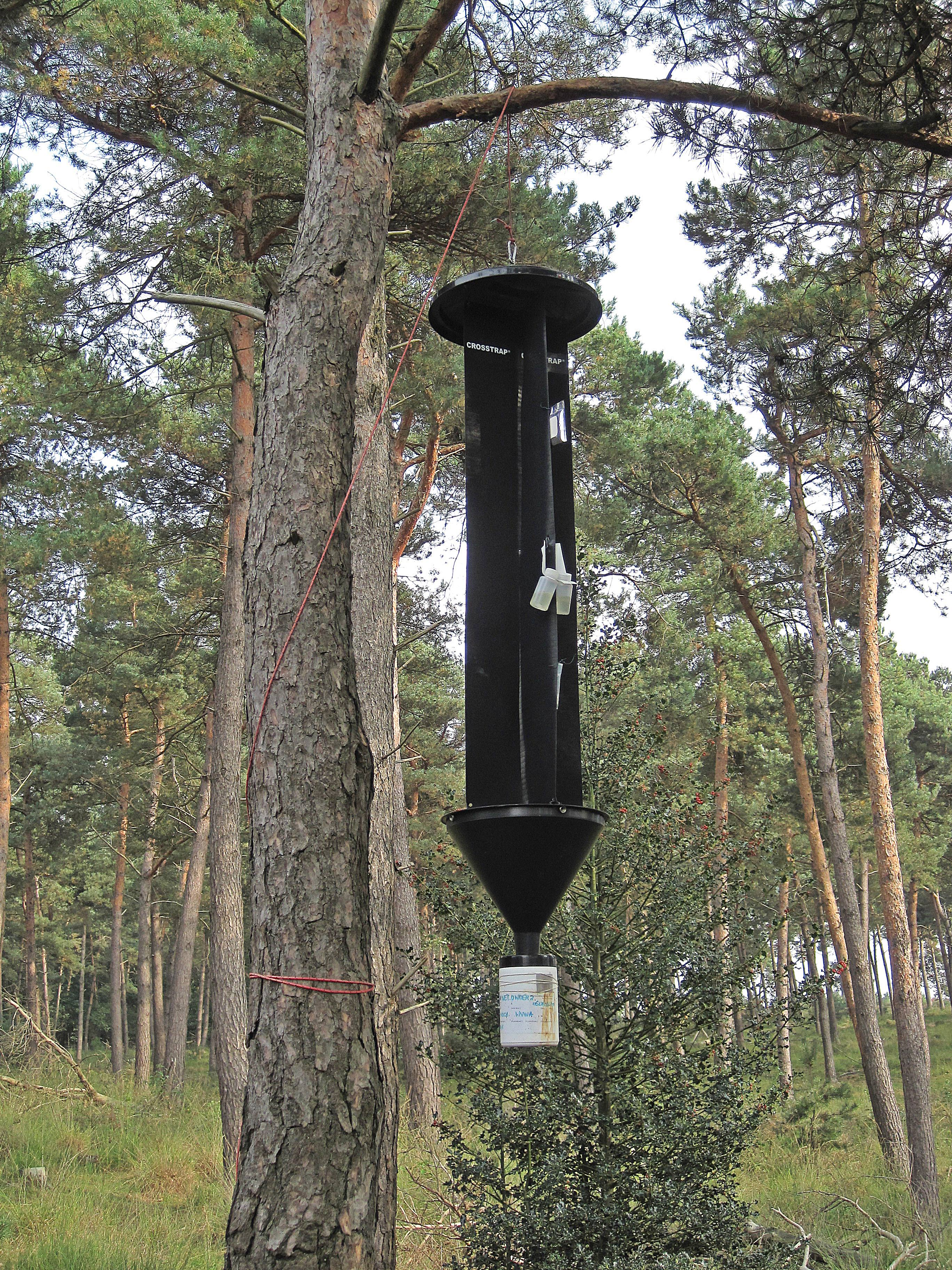 Pheromone trap, Mookerheide, the Netherlands